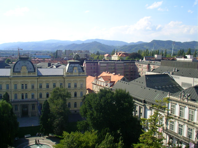 Slomsek square